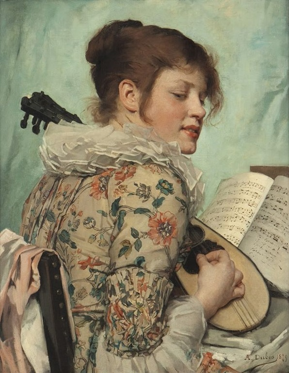 A New Song